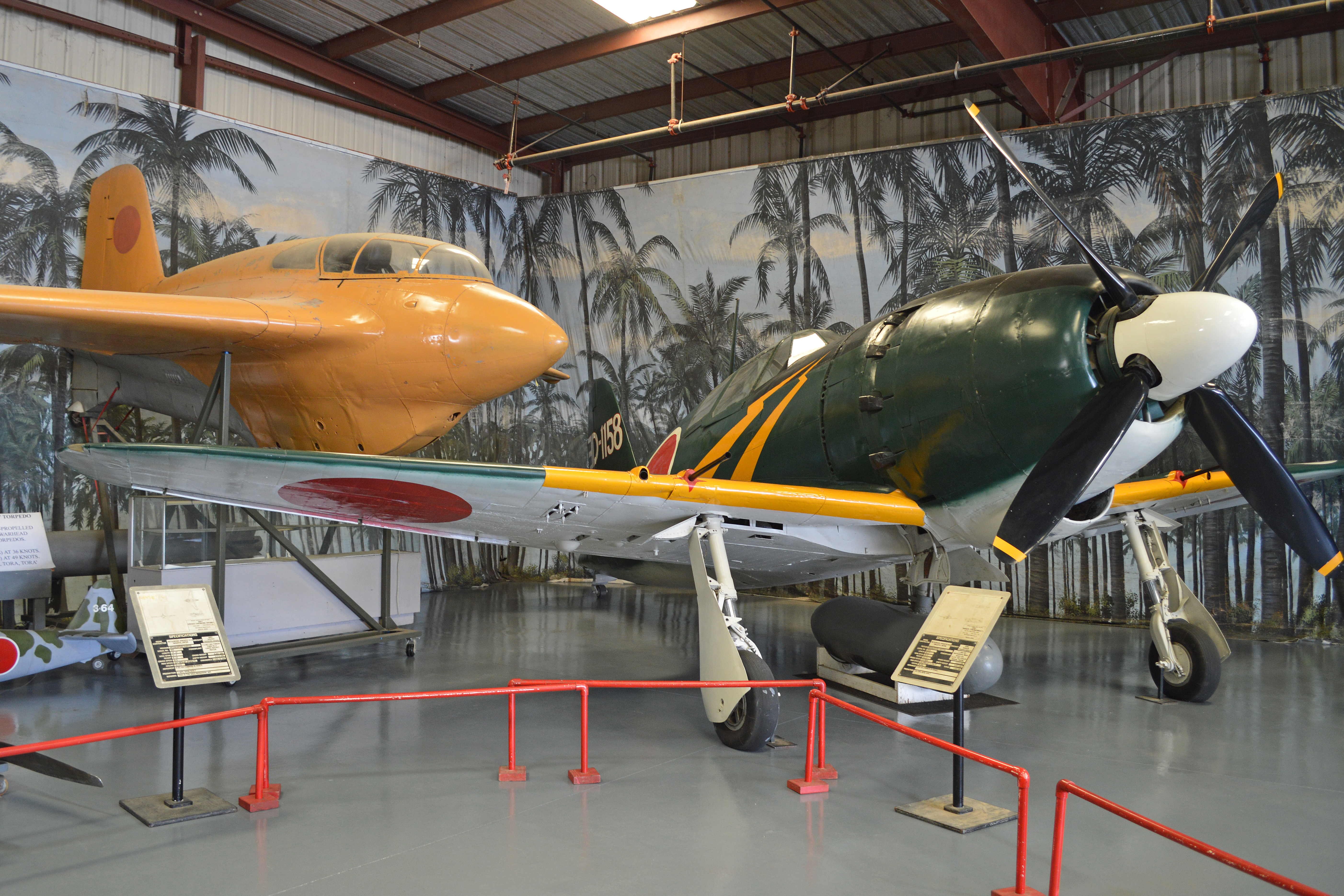 Two rare but genuine survivors from the thousands of aircraft built by Mitsubishi during WW2. Left is J8M1 Shusui c/n 403, while on the right is J2M3 ‘Jack’ ‘ED-1158’ Both are preserved and on display in the ‘Foreign’ hangar at the Planes of Fame Museum, Chino, California, USA. 28-2-2016